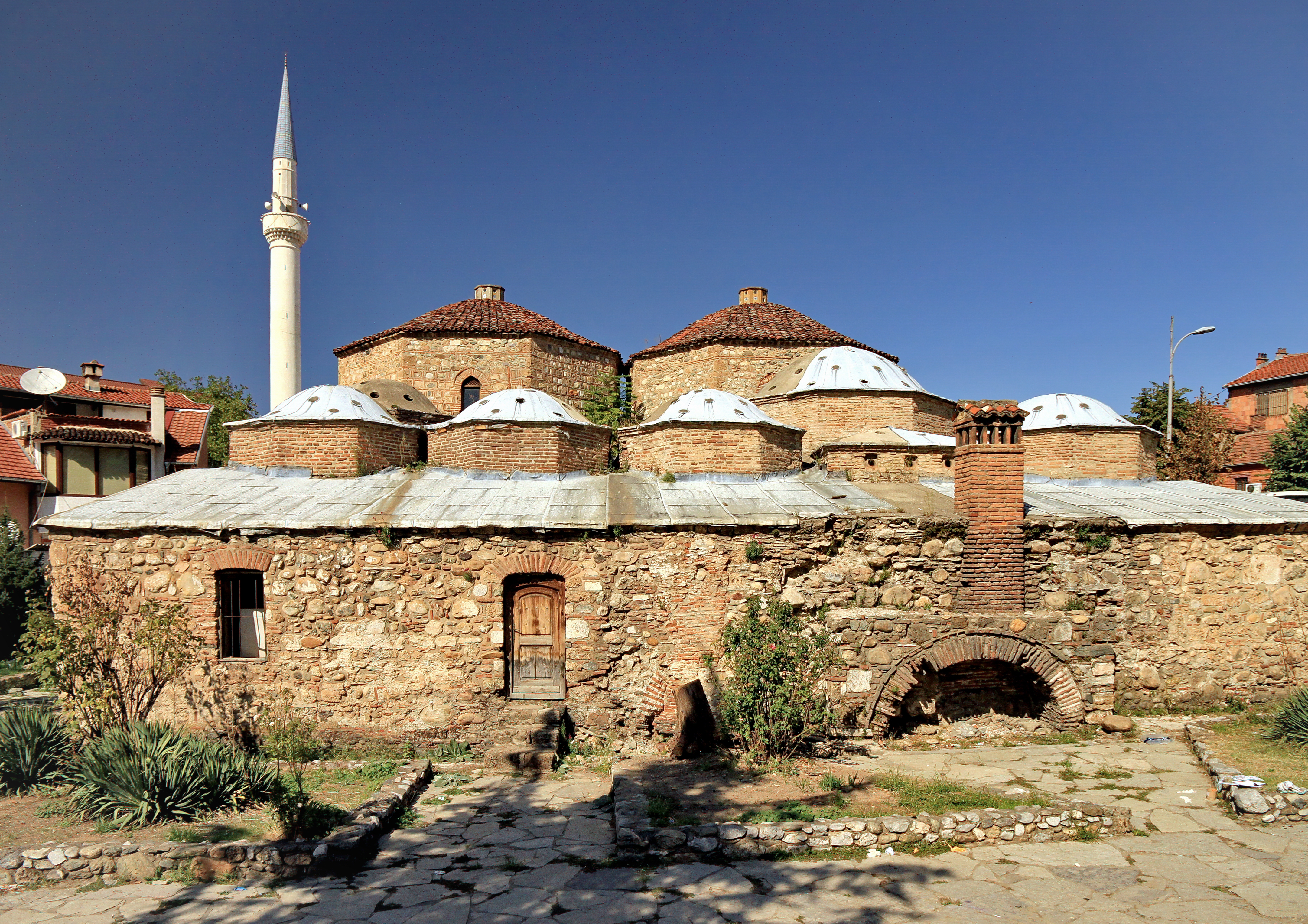 Gazi Mehmet Pasha Hammam. Prizren, Kosovo